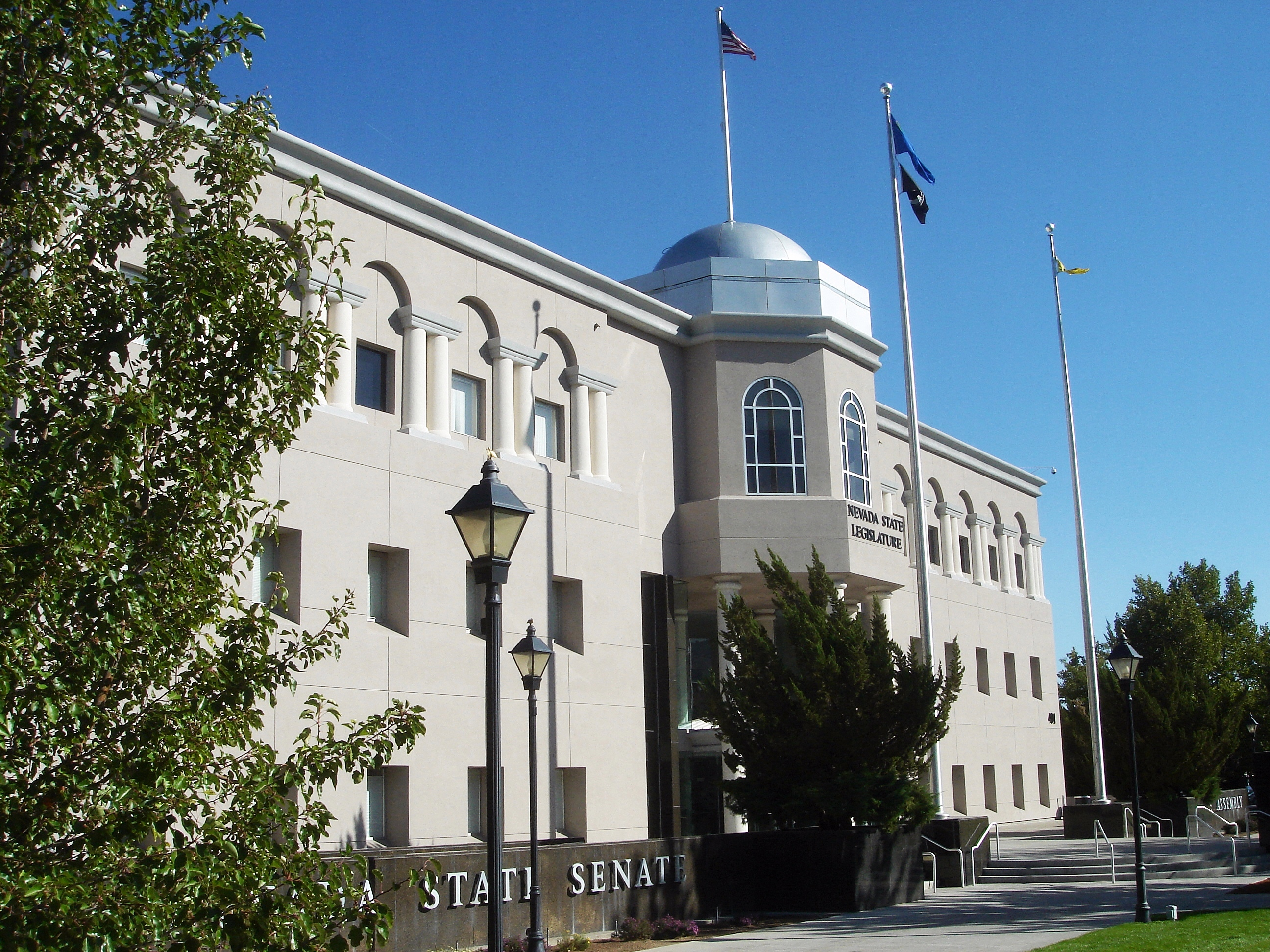 Nevada Legislature Building, Carson City. Architect Frederic DeLongchamps